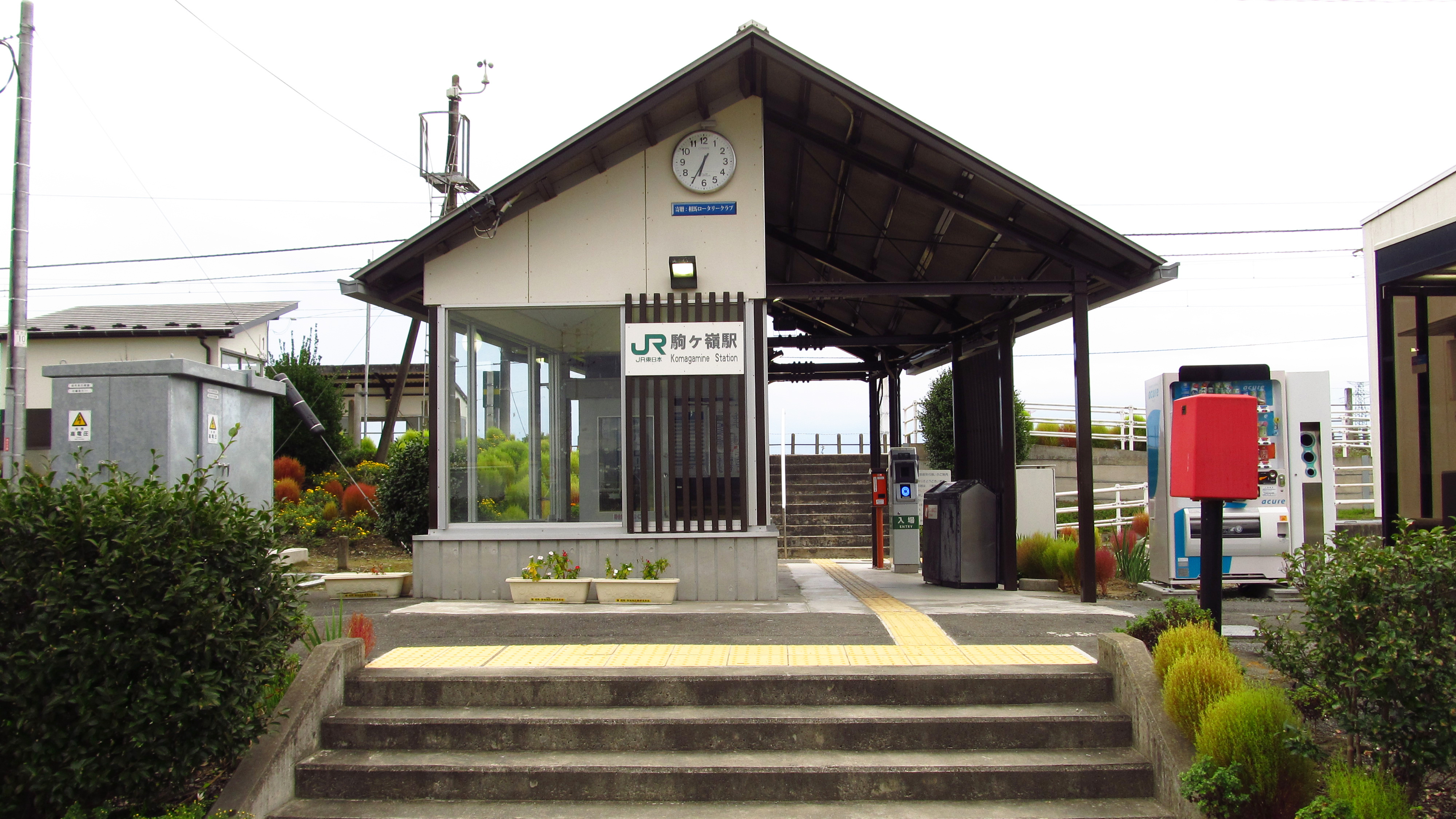 The entrance to Komagamine Station on the Jōban Line in Fukushima Prefecture, Japan